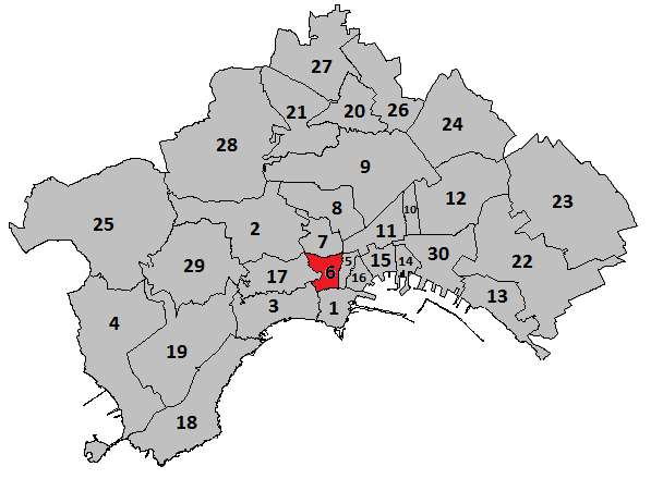 Quartiere Montecalvario in Naples